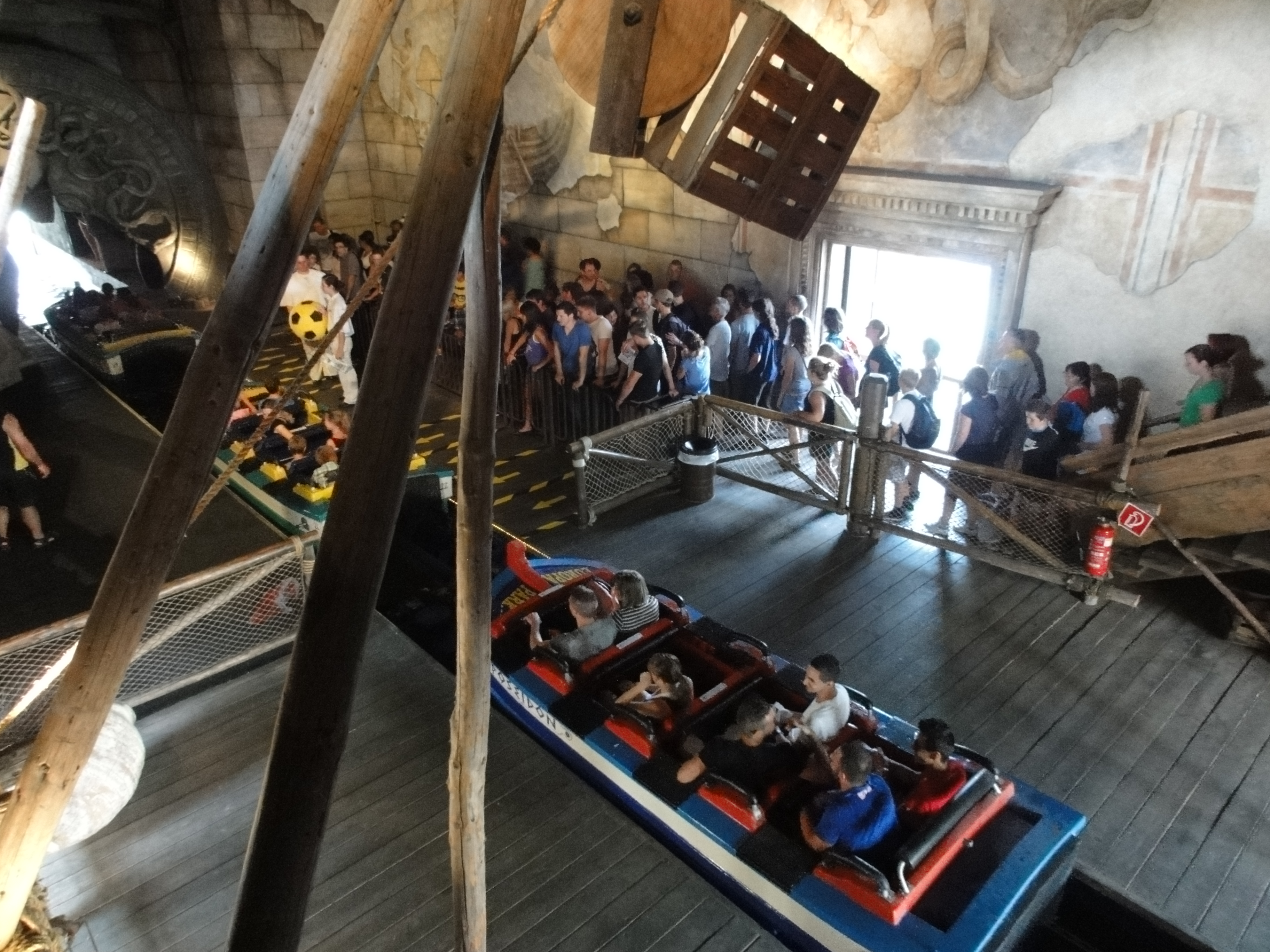 Poseidon, Europa-Park, Rust, Baden-Württemberg, Germany.